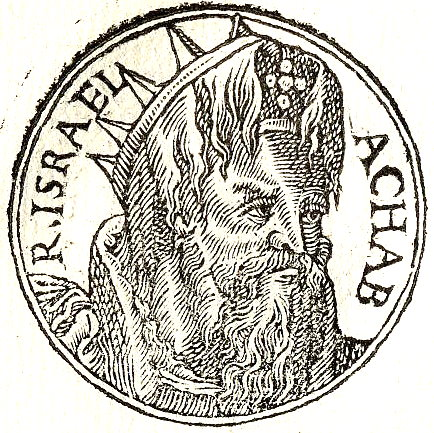 Ahab was king of Israel and the son and successor of Omri (1 Kings 16:29-34).